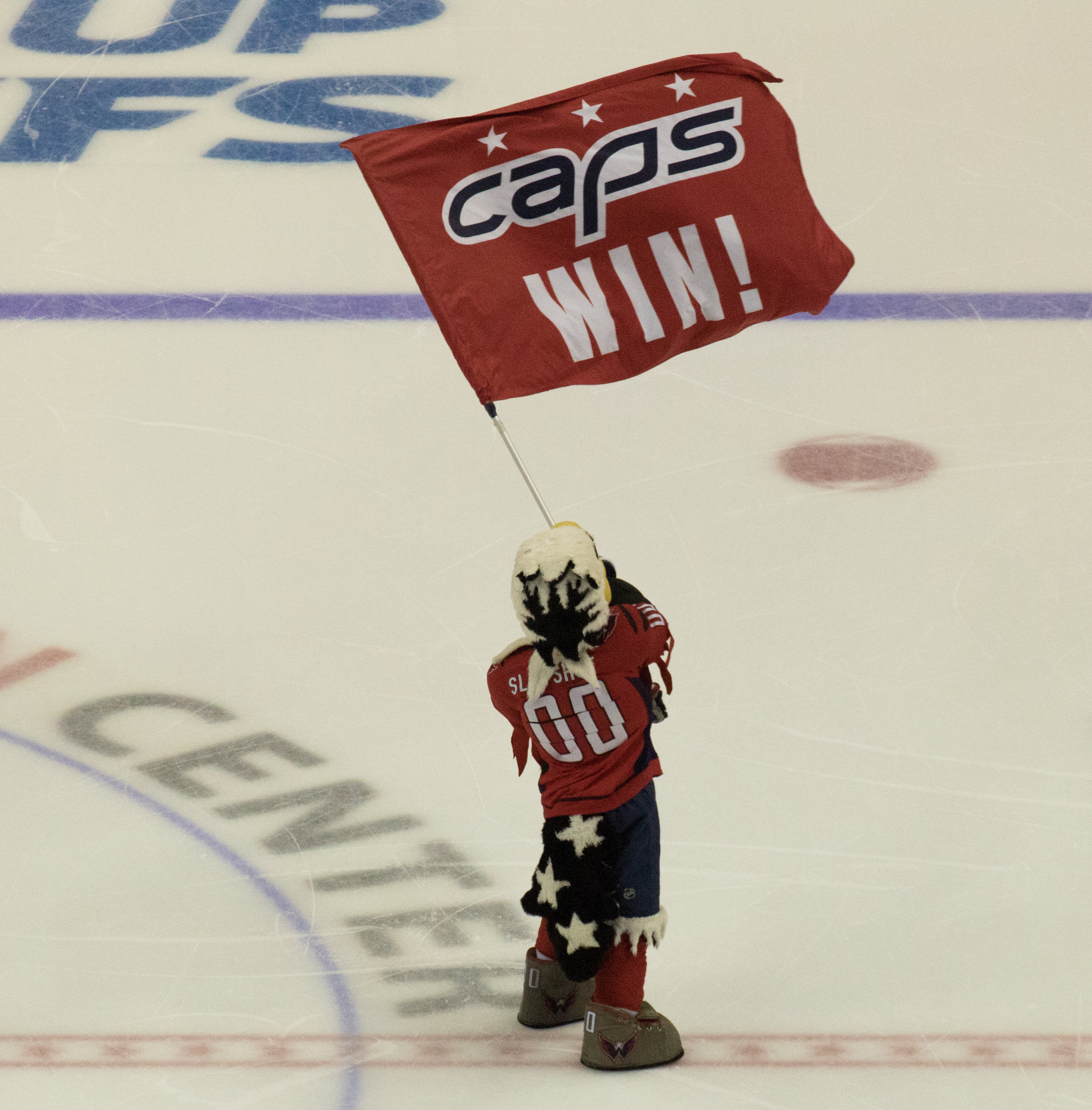 NHL 2017 Playoffs, Round 1, Game 5: Capitals 2, Toronto Maple Leafs 1